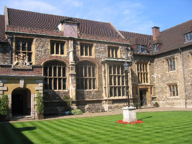 Charterhouse, EC1.